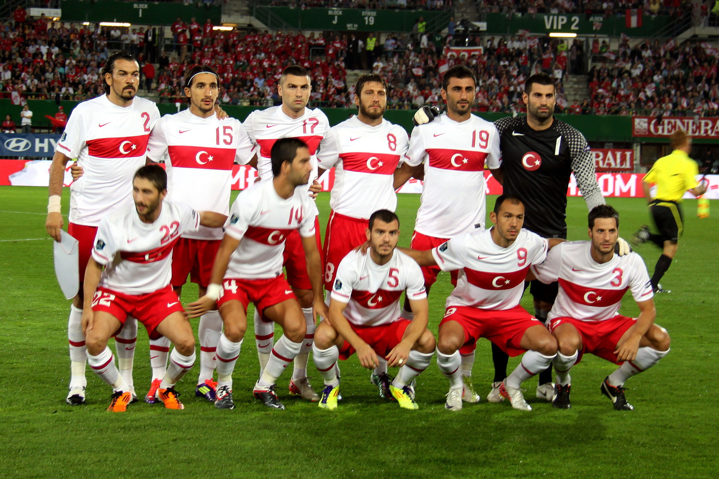 Turkey national football team against Austria 2011-09-06 (0:0)